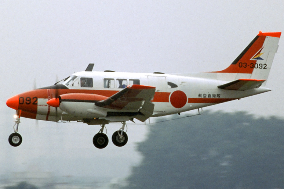 Iruma, November 1994. Beech 65 Queen Air 03-3092 was in service with the HQ Flight.